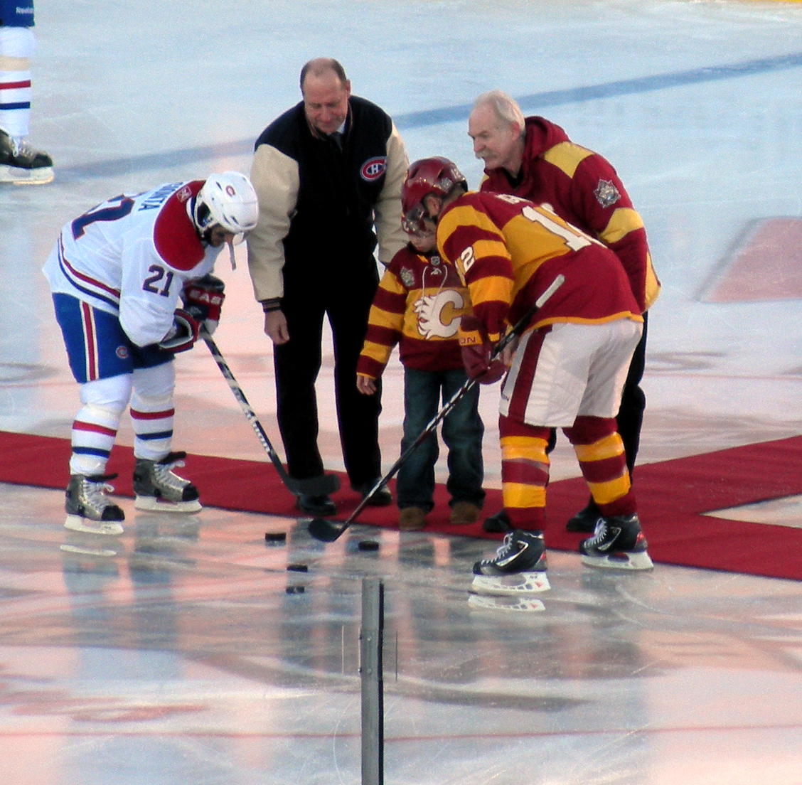 The ceremonial face off prior to the start of the 2011 Heritage Classic at McMahon Stadium in Calgary. Players are Calgary captain Jarome Iginla and Montreal captain Brian Gionta. Montreal Hall of Famer Bob Gainey, Calgary Hall of Famer Lanny McDonald and McDonald's seven-year-old grandson are dropping the pucks.